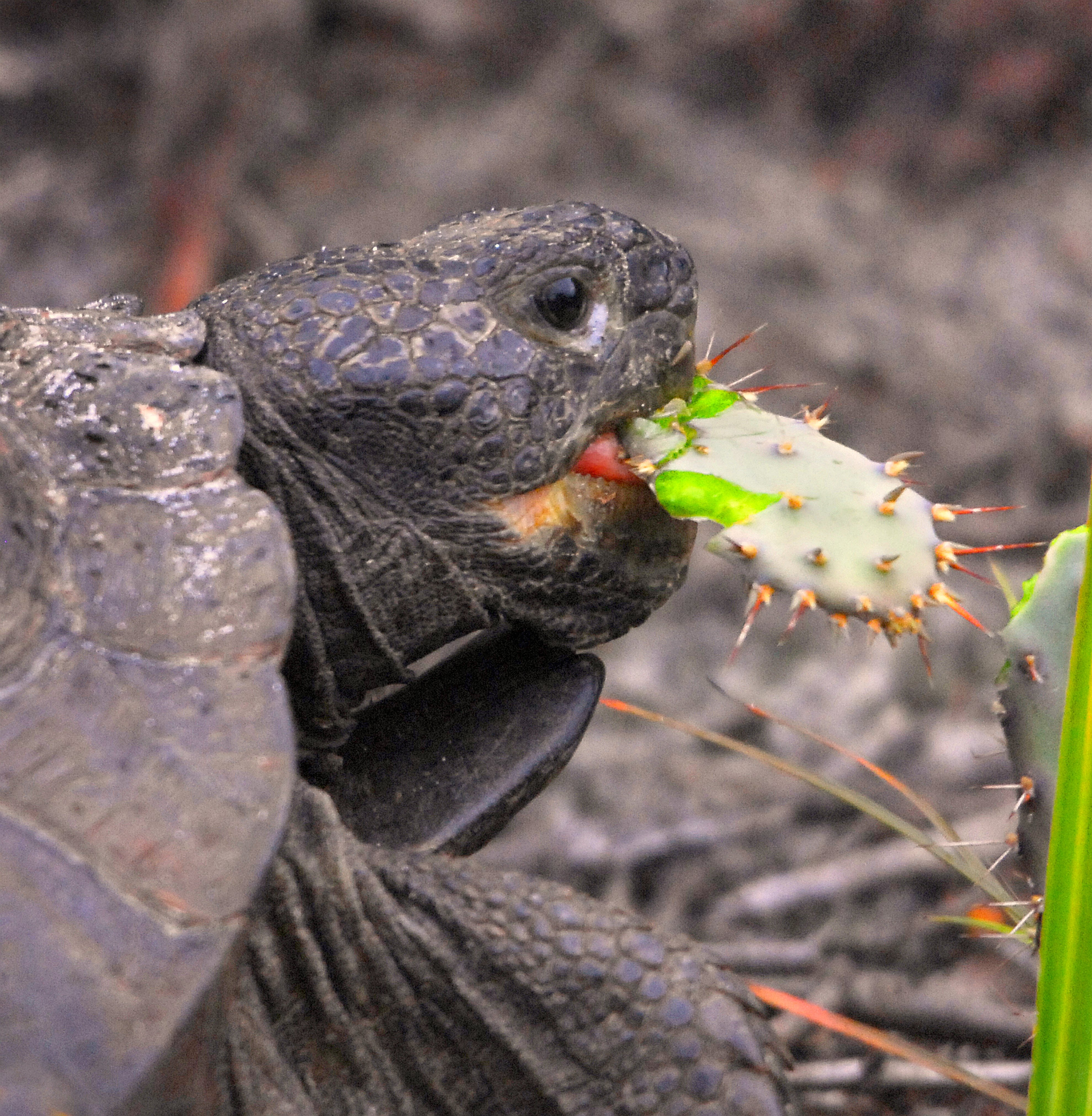 Gopher Tortoise snacking on Opuntia ( Nopales ) cactus at Smyrna Dunes Park I don't know how I missed uploading this shot yesterday. Anyway, here is one of my favorites from the series. I remain amazed at the speed these creatures are capable of in both eating and movement when they are motivated. Click on this link and read the first sentence of the 3rd paragraph. It says tortoises can eat the Opuntia cactus pads because they have no pain receptors in their mouths. I'm still not convinced but maybe that's it. It still would seem the spines could do damage to them but aparently don't.